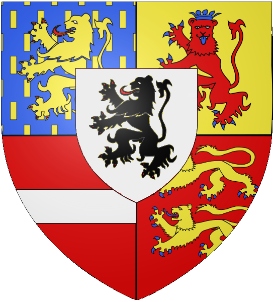 Arms of the Counts of Nassau-LaLecq (also known as van Nassau-Beverweert, van Nassau-den Lek, van Nassau-Ouwerkerk, earls of Rochford, van Nassau-Odijk)